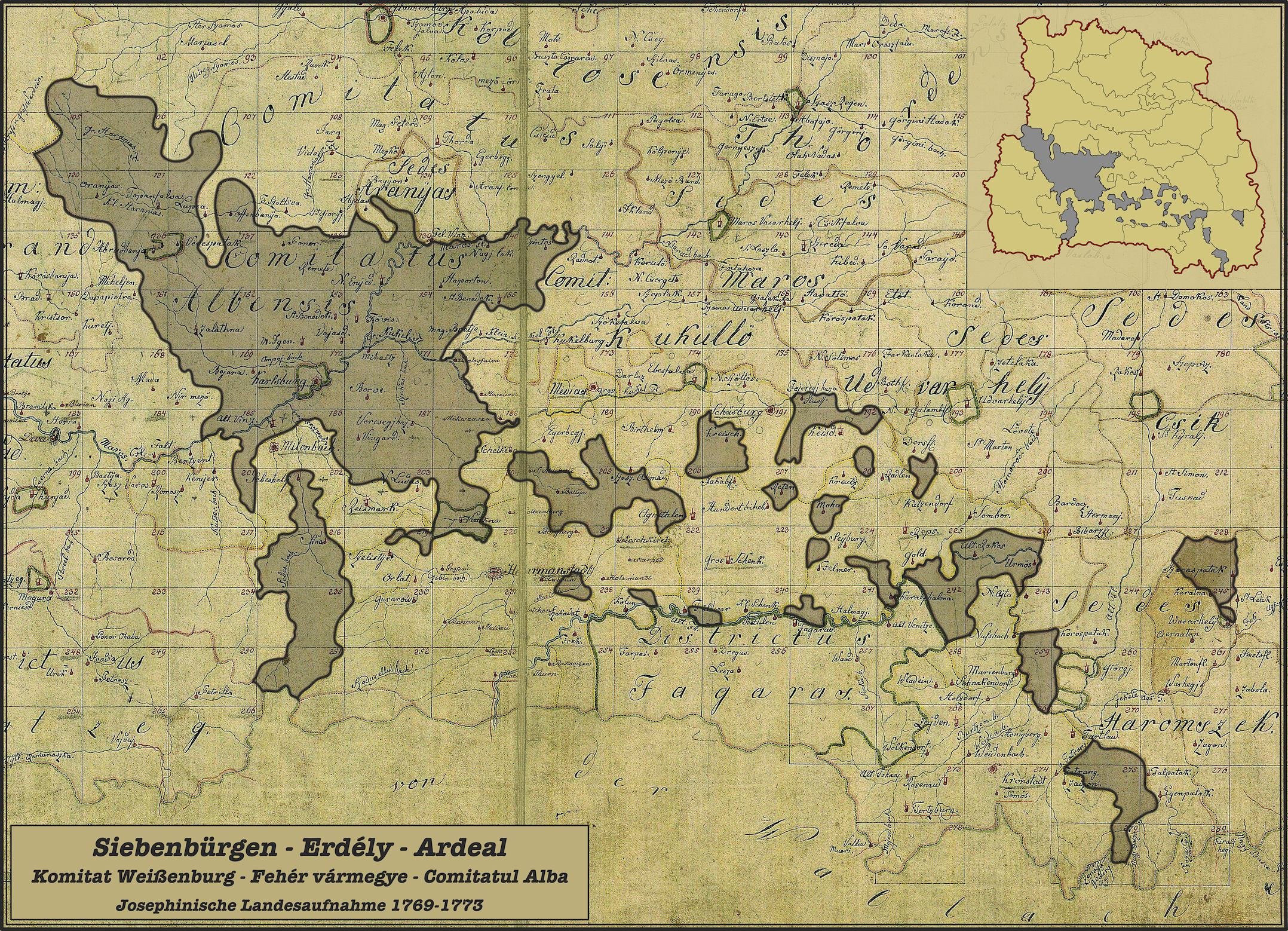 Alba Komitat in Transylvania